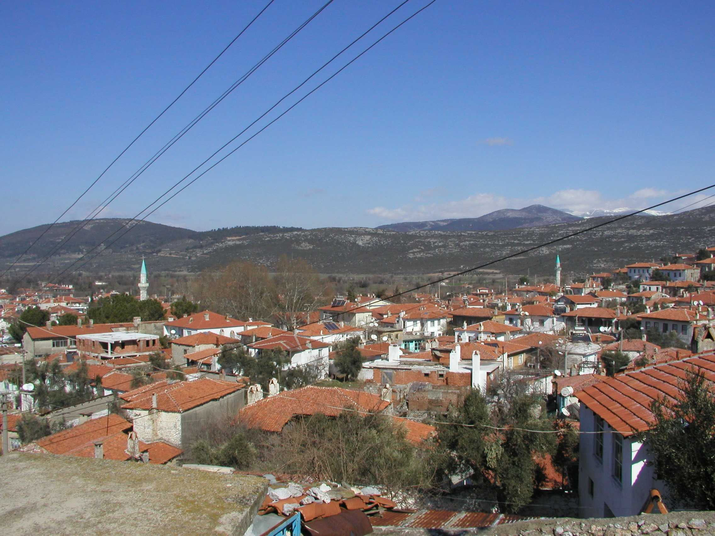 General view of the township of Yeşilyurt depending Muğla in southwestern Turkey